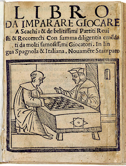 Front of Pedro Damiano's Questo Libro e da Imparare Giocare a Scacchi et de le partite